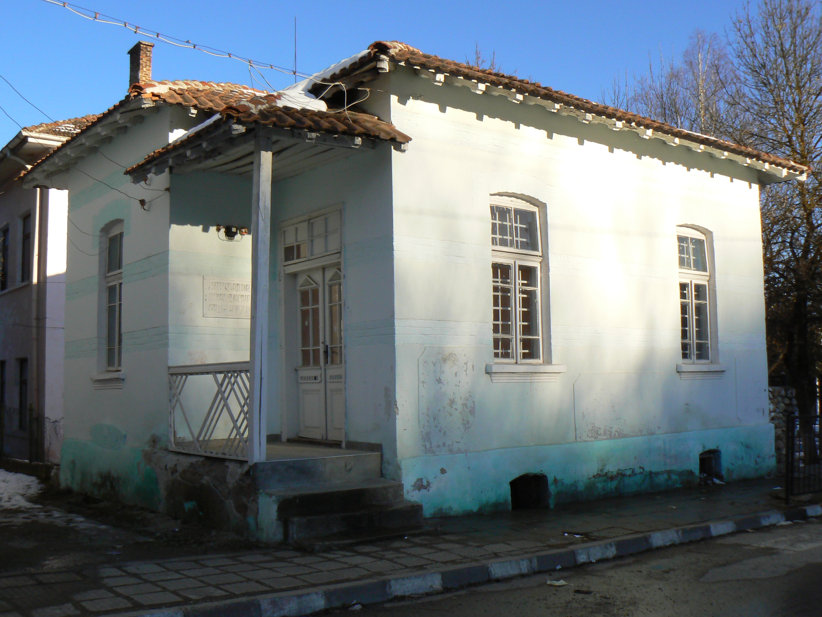 Centre for touristic and cultural information, villages Treklyano, Bulgaria